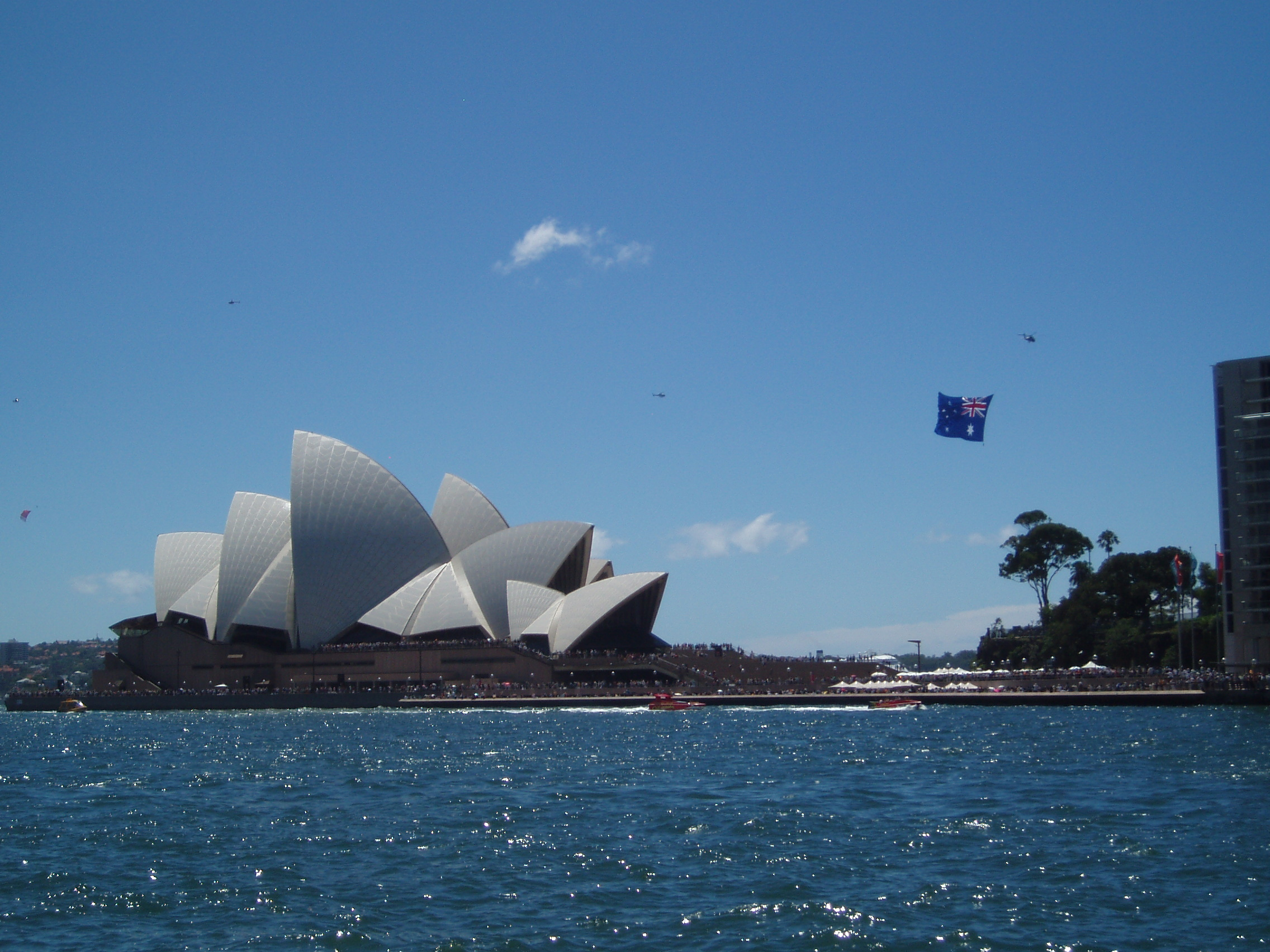 Sydney Opera House on Australia Day